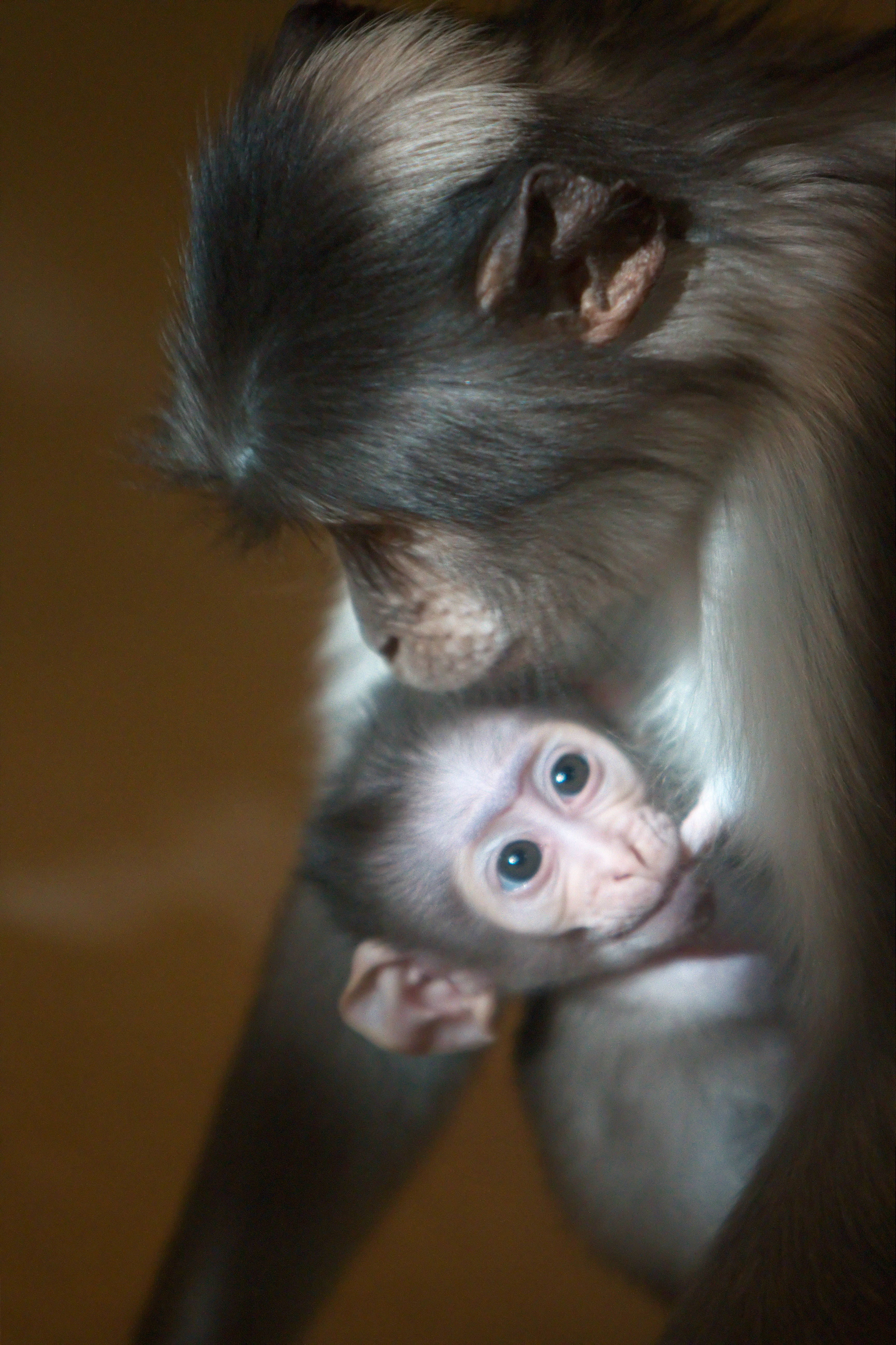 Mangabey mother love